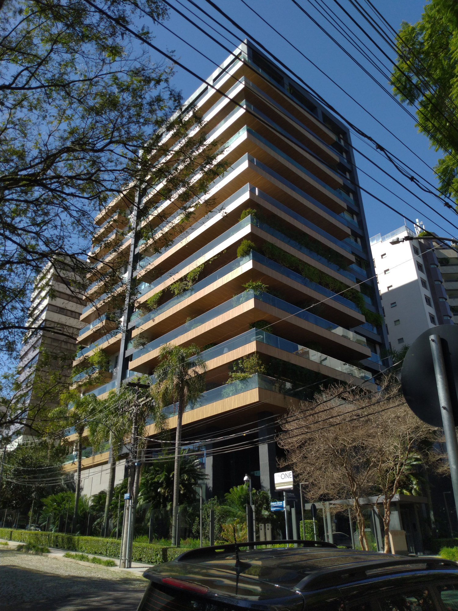 Montserrat (Mountain), Spain